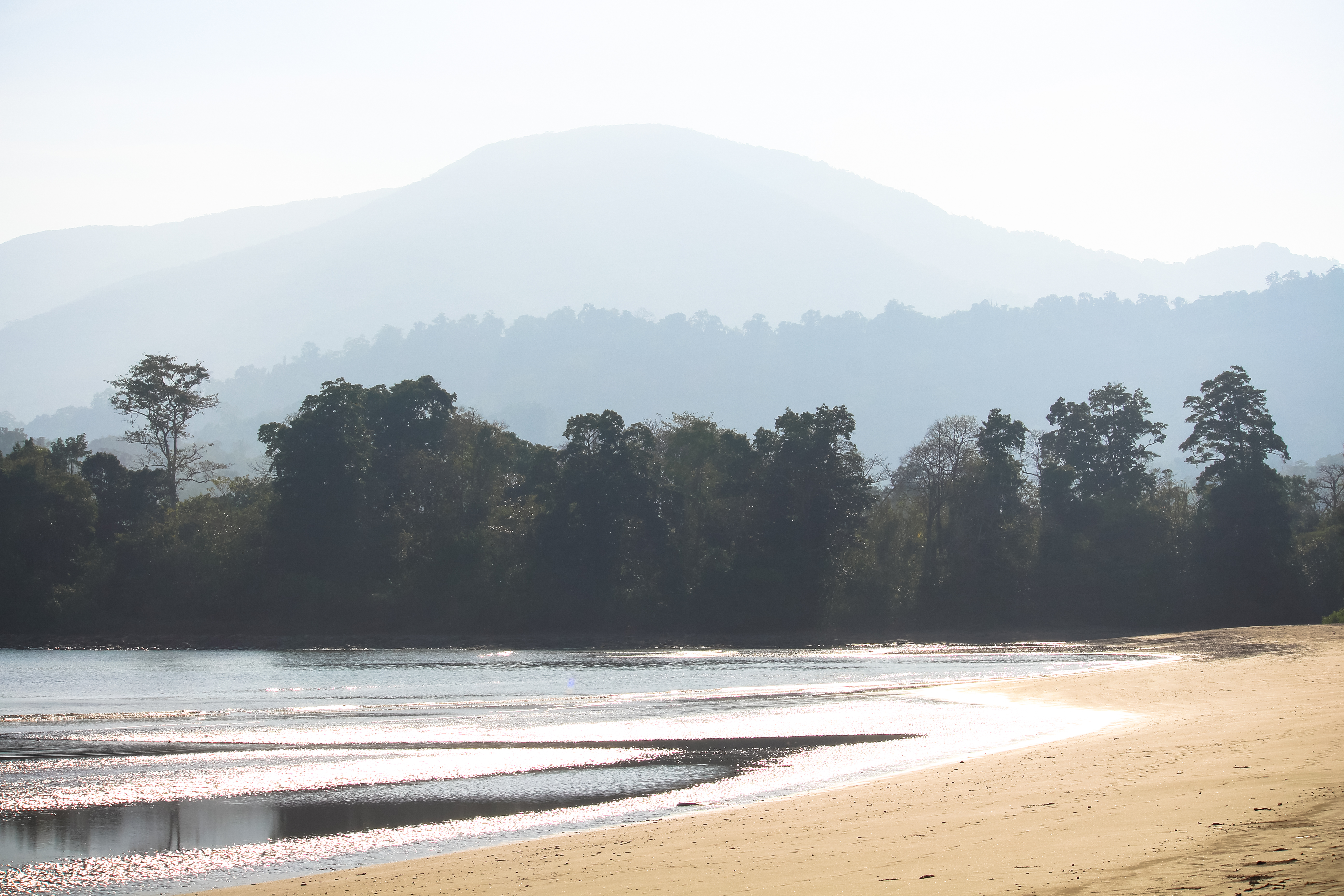 Saddle peak Andaman from Kalipur beach